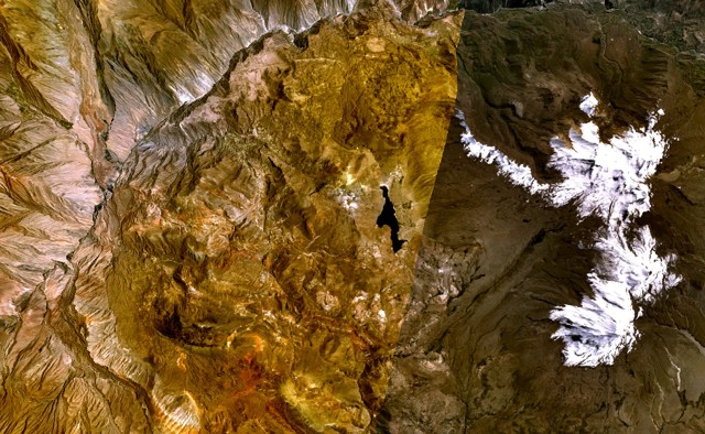 The dark-brown area just north of the elongated black lake at the center of this NASA Landsat image is a lava flow from the northern segment of the Huambo volcanic field, Peru. The flows were erupted from the Cerro Keyocc cinder cone about 2650 years ago. The southern part of the volcanic field, the dark-brown area at the SW part of this image, contains several cinder cones and associated lava flows, some of which are inferred to be of early to late-Holocene age. The large glacier-covered massif to the east is the Sabancaya volcanic complex.